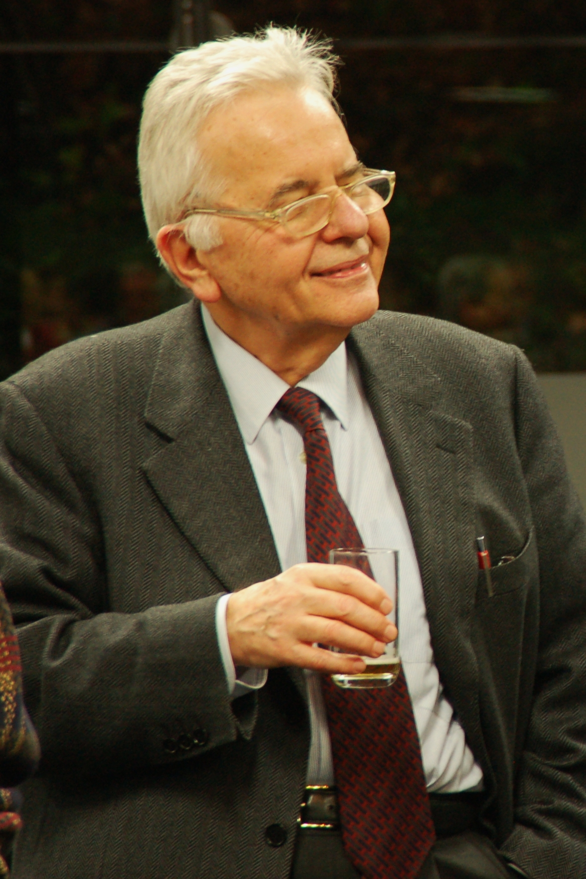 Nicola Cabibbo at the CKM Workshop 2006, Nagoya, Japan